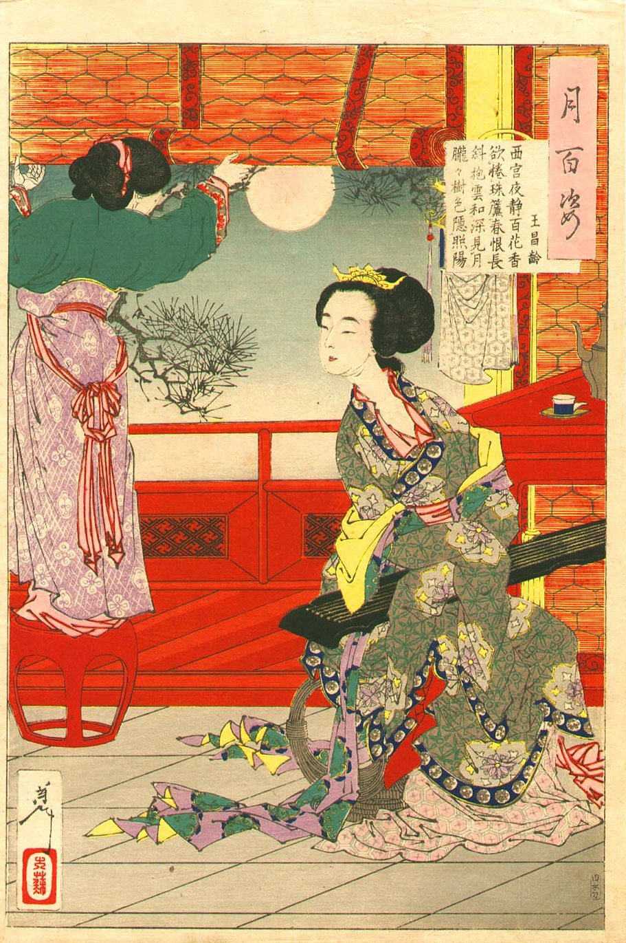 Wang Changling. A poem by Wang Changling, "The night is still and a hundred flowers are fragrant in the western palace. She orders the screen to be rolled up, regretting the passing of spring with the Yunhe across her lap. She gazes at the moon, the colors of the trees are hazy in the indistinct moonlight." No. 54 in the ukiyo-e print series One Hundred Aspects of the Moon.